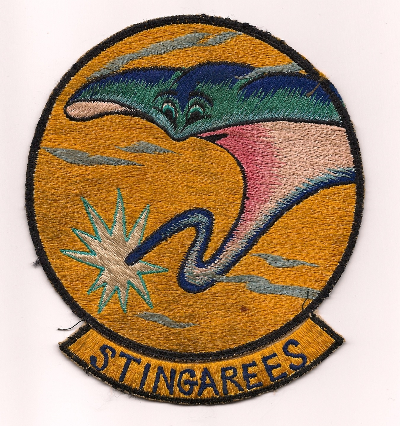 Insignia of the U.S. Navy Fighter Squadron 124 (VF-124) "Stingrays", in 1955. It shows a Stingray with electrical pulse eminating from tail, yellow background. Stingrays in rocker at bottom. Patch created by USN squadron members for use in 1955.